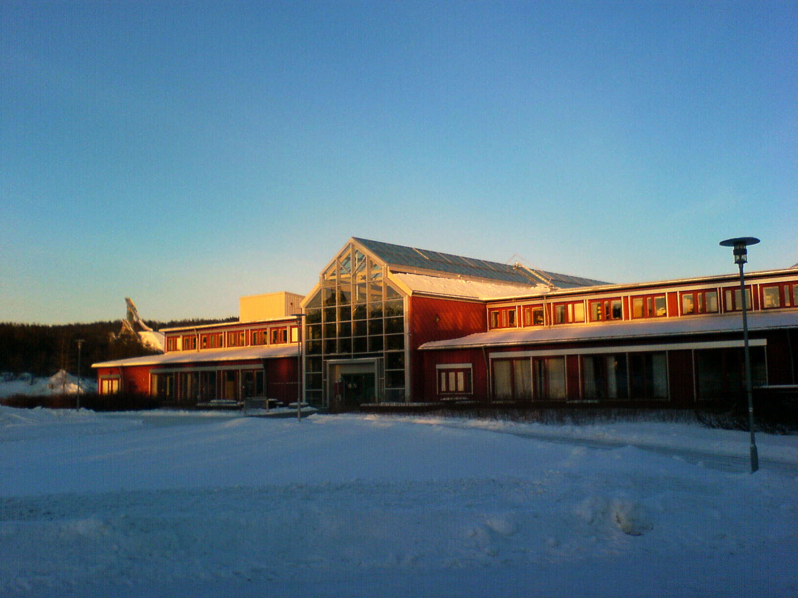 Administrative HQ University of Tromsø, Norway. February